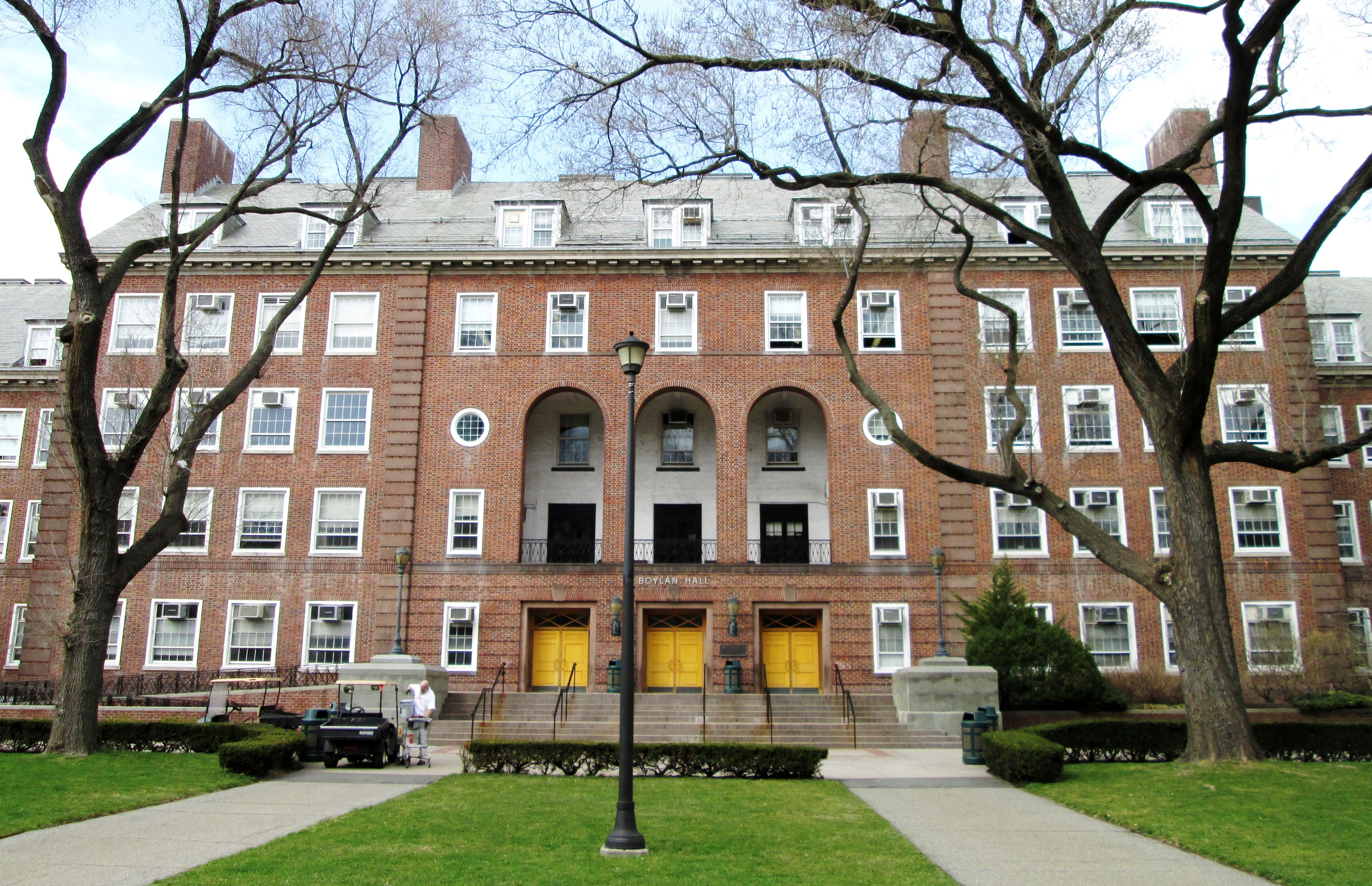 Brooklyn College is a senior college of the City University of New York, located in the Midwood neighborhood of Brooklyn, New York City. The origin of Brooklyn College occurred in 1910 with the establishment of an extension division of the City College for Teachers. The school then began offer evening classes for first-year male college students in 1917. In 1930 by the New York City Board of Higher Education, the College authorized the combination of the Downtown Brooklyn branches of Hunter College – at that time a women's college – and the City College of New York – a men's college – both of which had established been in 1926. With the merger of these branches, Brooklyn College became the first public coeducational liberal arts college in New York City. The college's 26-acre (110,000 m2) campus is known for its beauty, and is often regarded as "the poor man's Harvard" because of its low tuition and reputation for respectable academics. The master designer of the original Georgian style campus, now known as the "East Quad", was Randolph Evans.